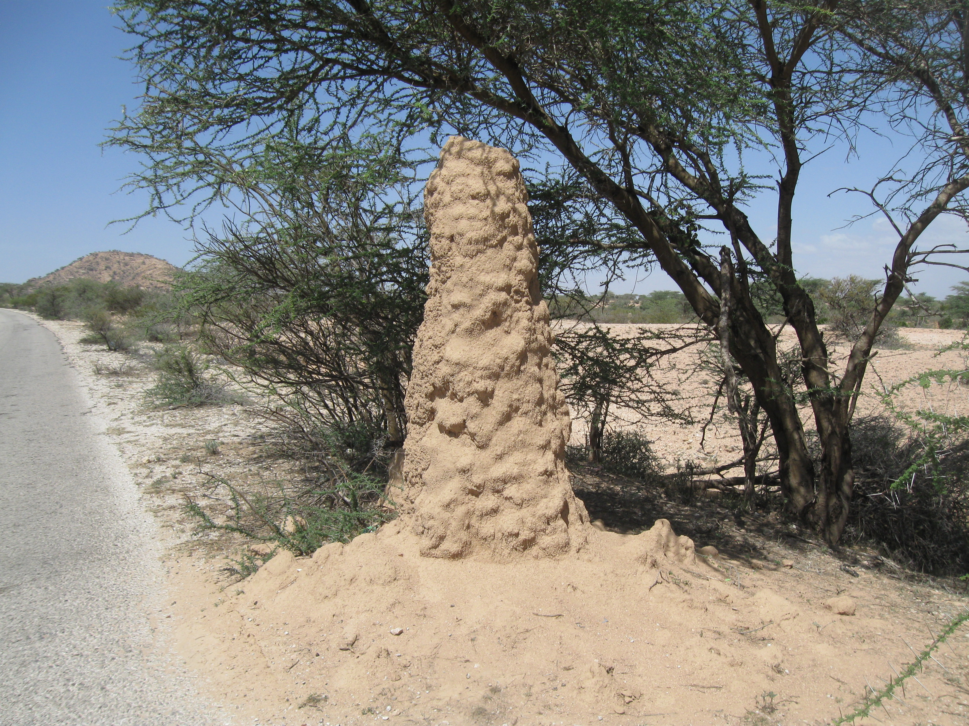 Somalia (Somaliland)